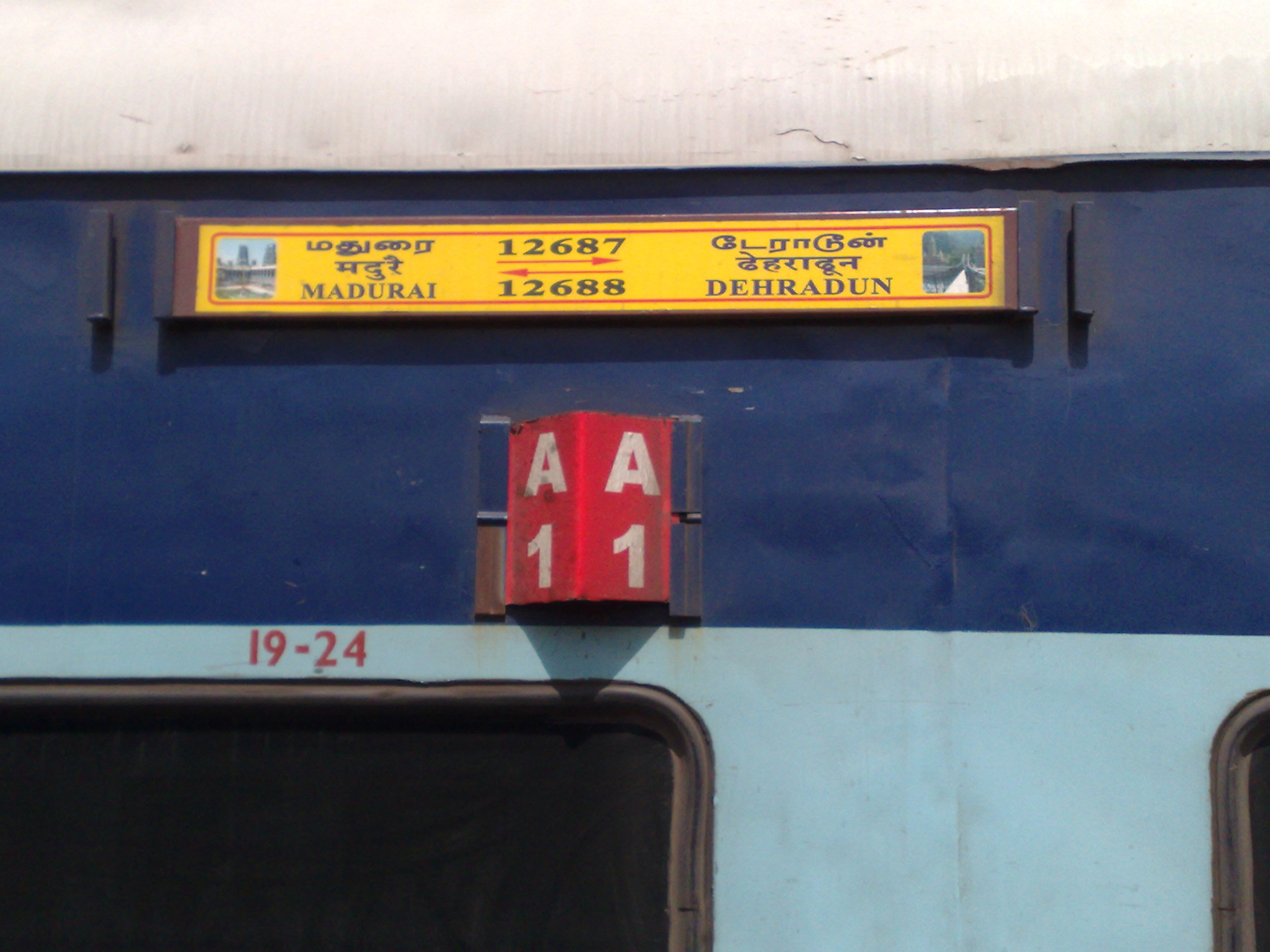 12688 Dehradun Madurai Express - Train board